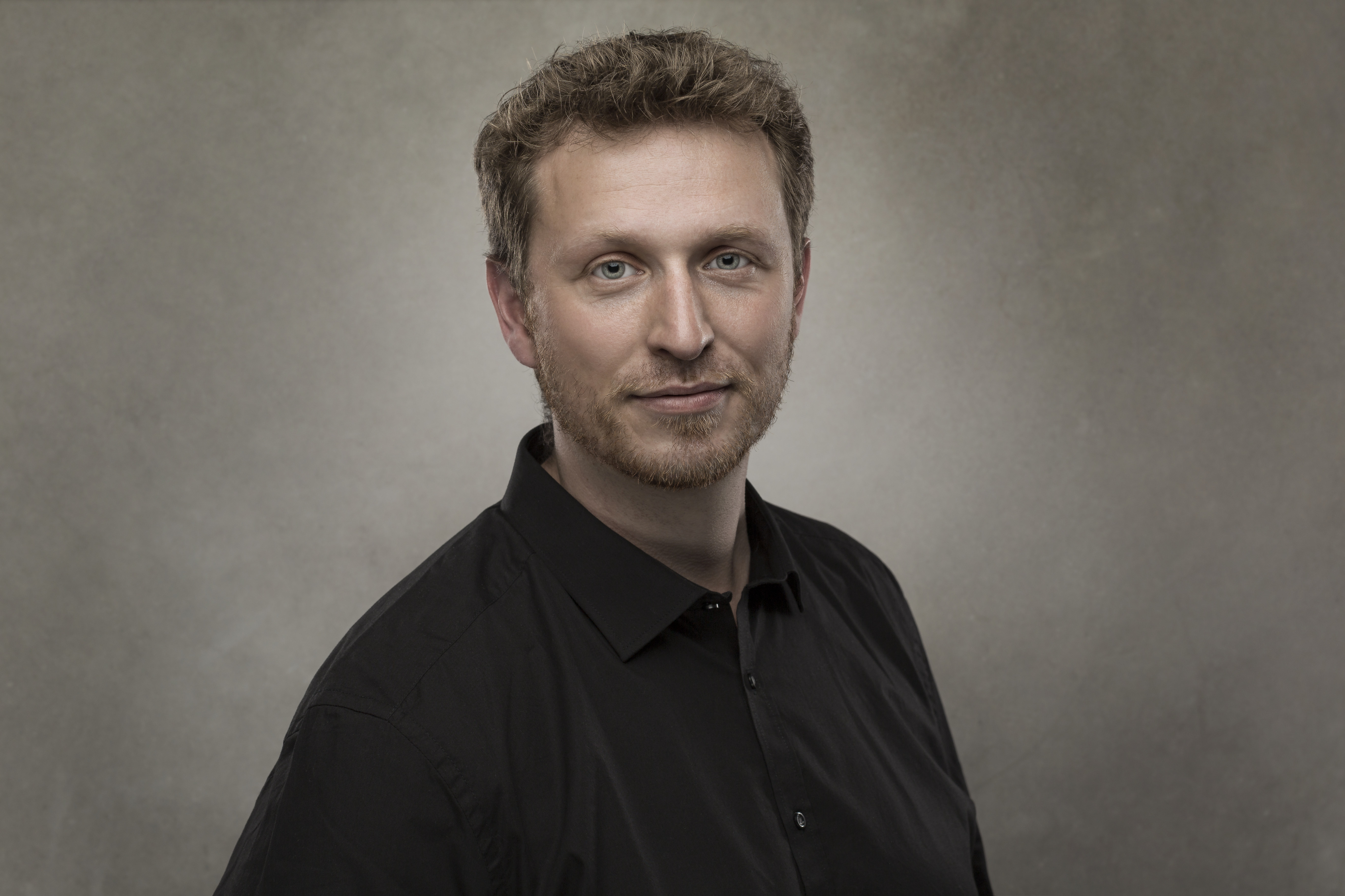 Drummer, Author and Teacher